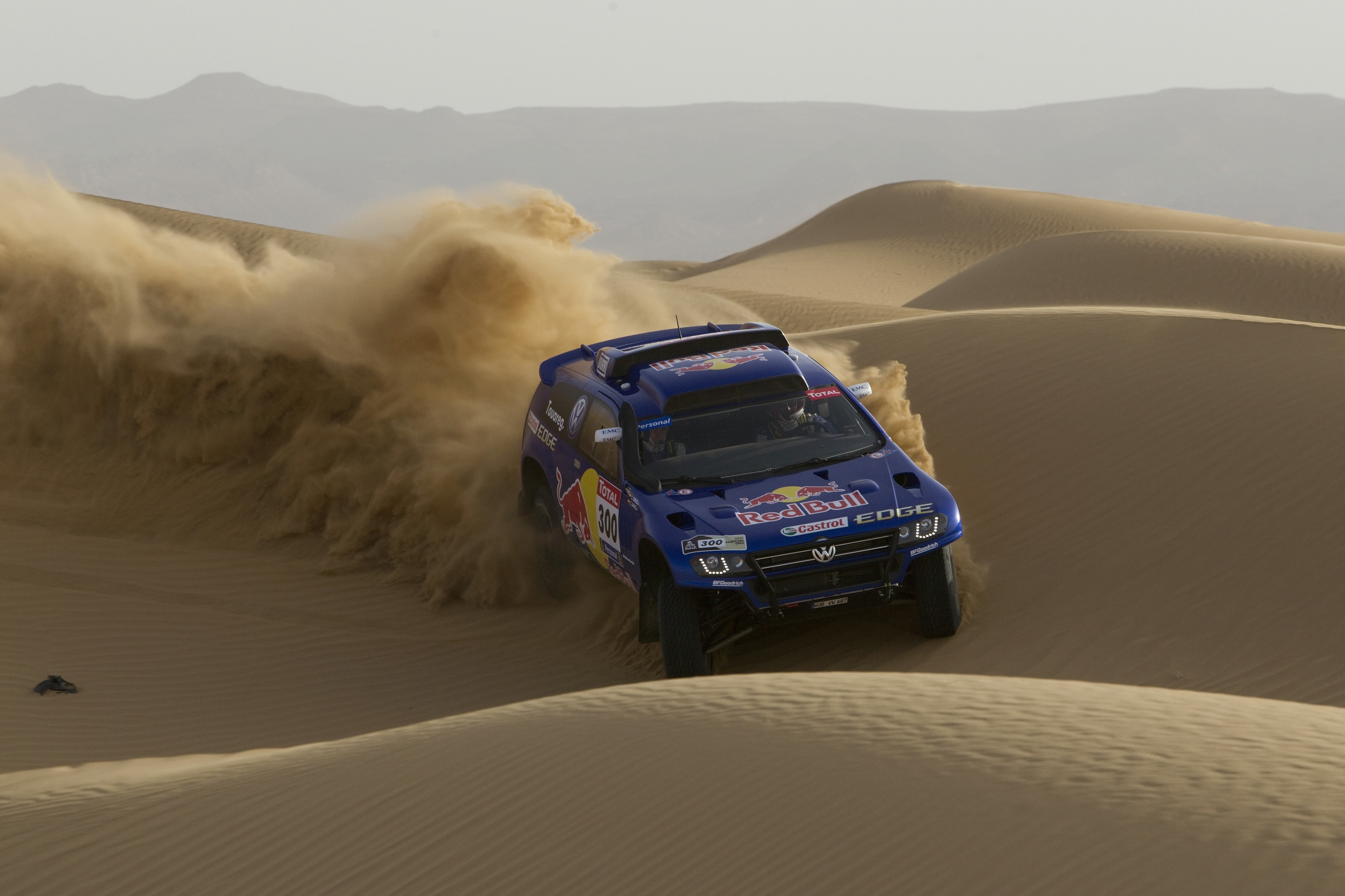 The Volkswagen Race Touareg 3 driven by Carlos Sanz (co-driver Lucas Cruz) undergoing testing in Morcocco, in preparation for the 2011 Dakar Rally in South America.